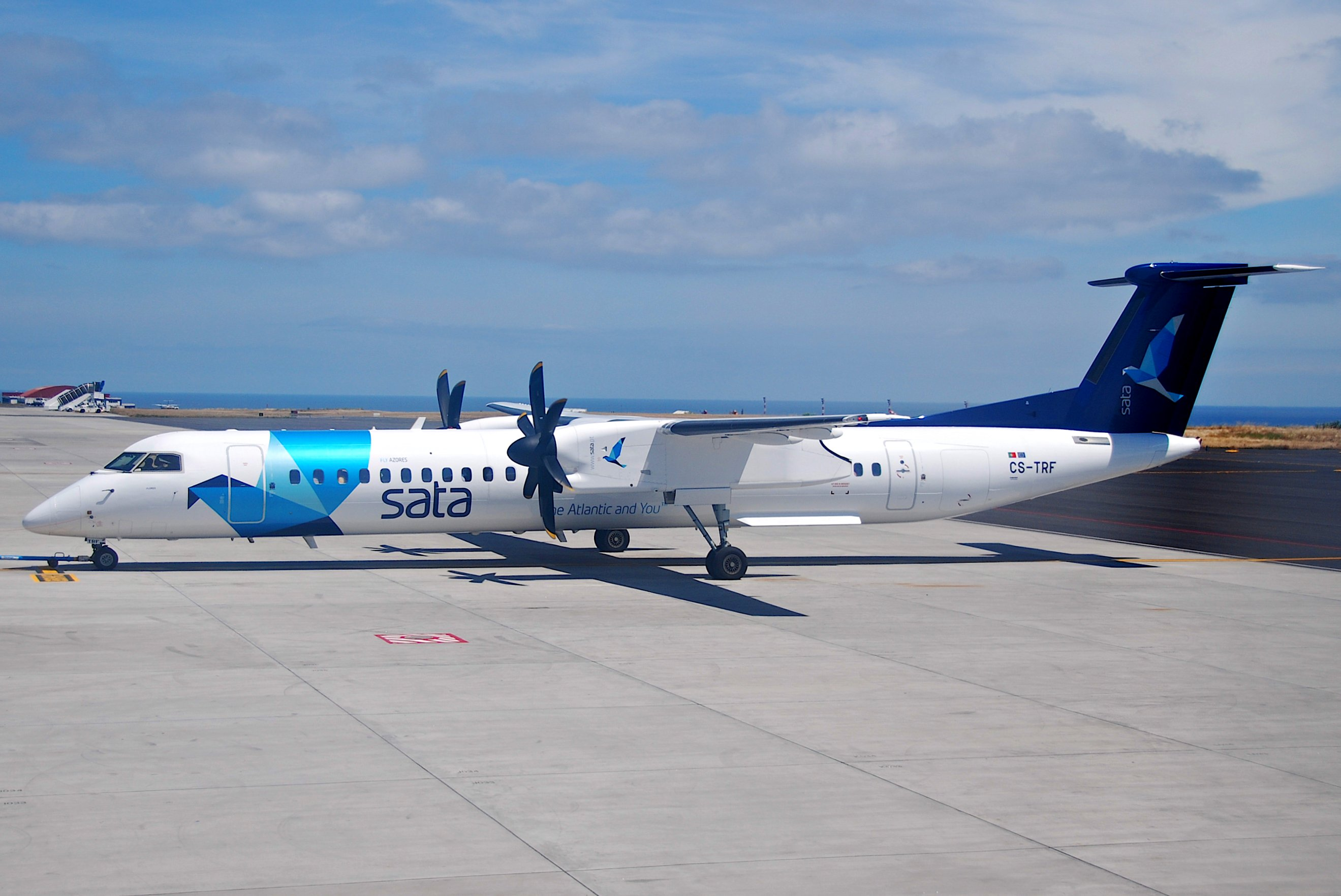 SATA Air Açores DHC-8-400 Dash 8; CS-TRF@PDL;11.07.2011/606aq